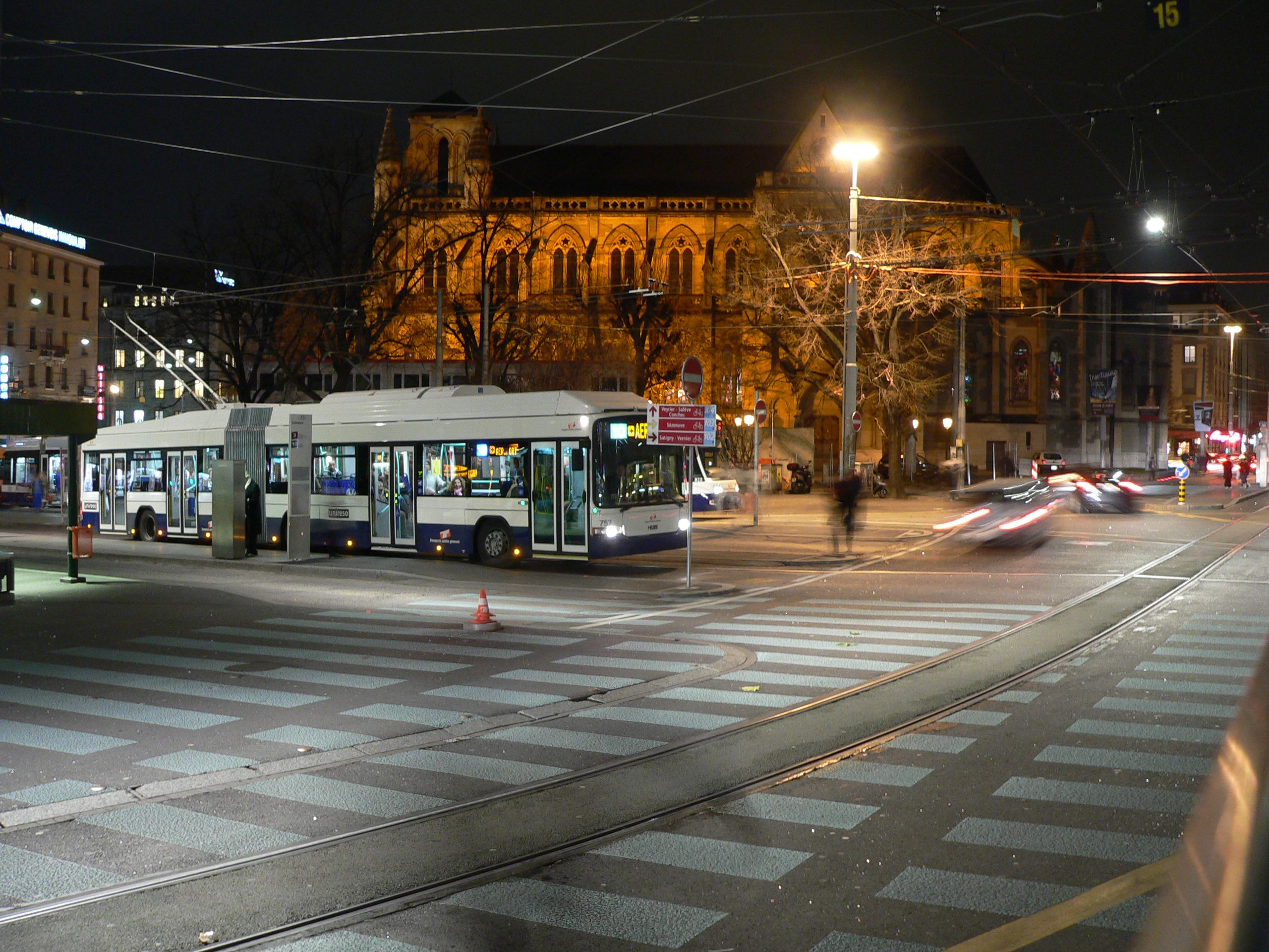 A trolleybus at Place Cornavin, in Geneva, Switzerland